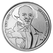 Swiss Commemorative Coin 1997 B CHF 20 obverse